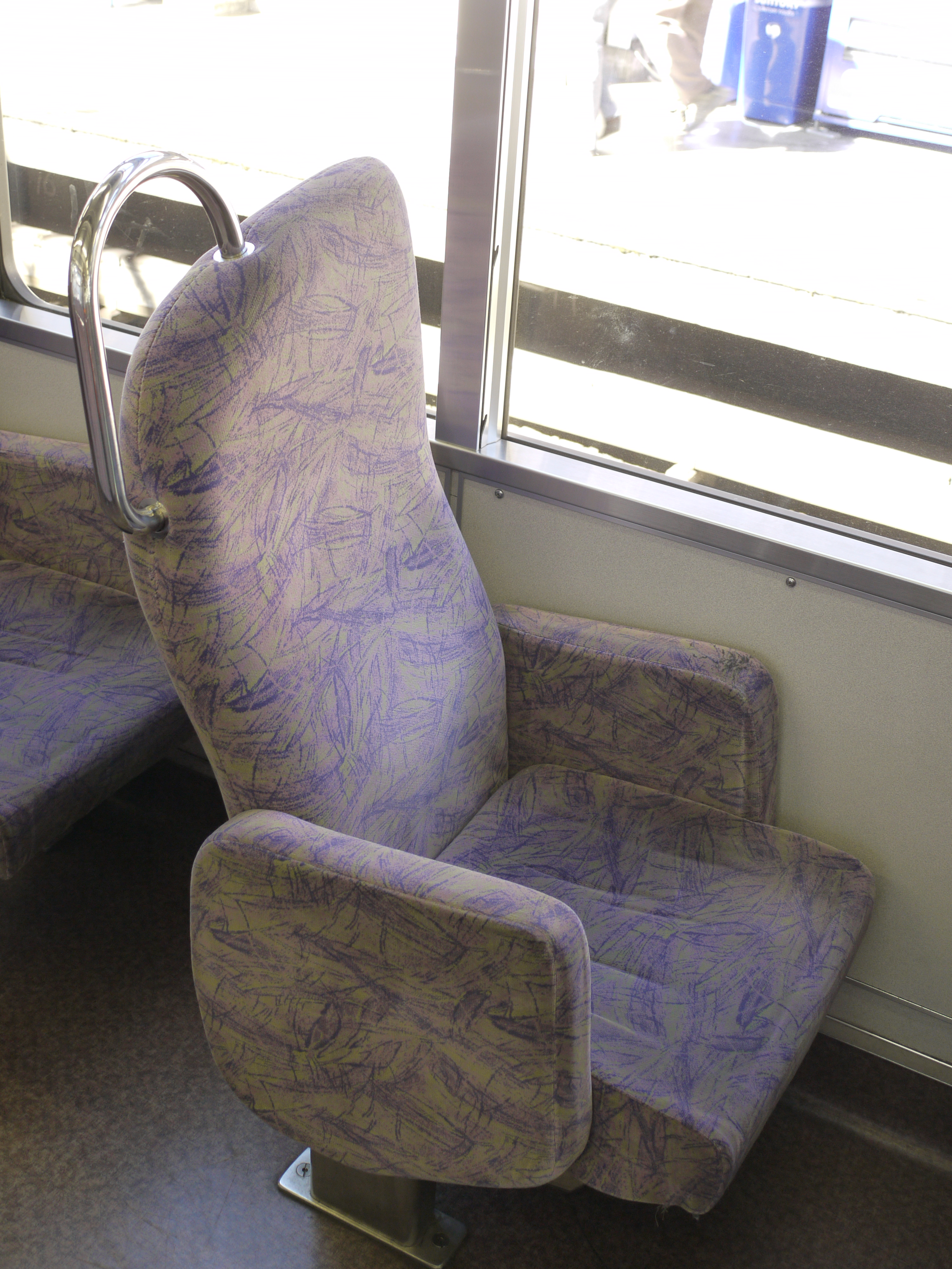 A seat on Eizan Electric Railway 900 series